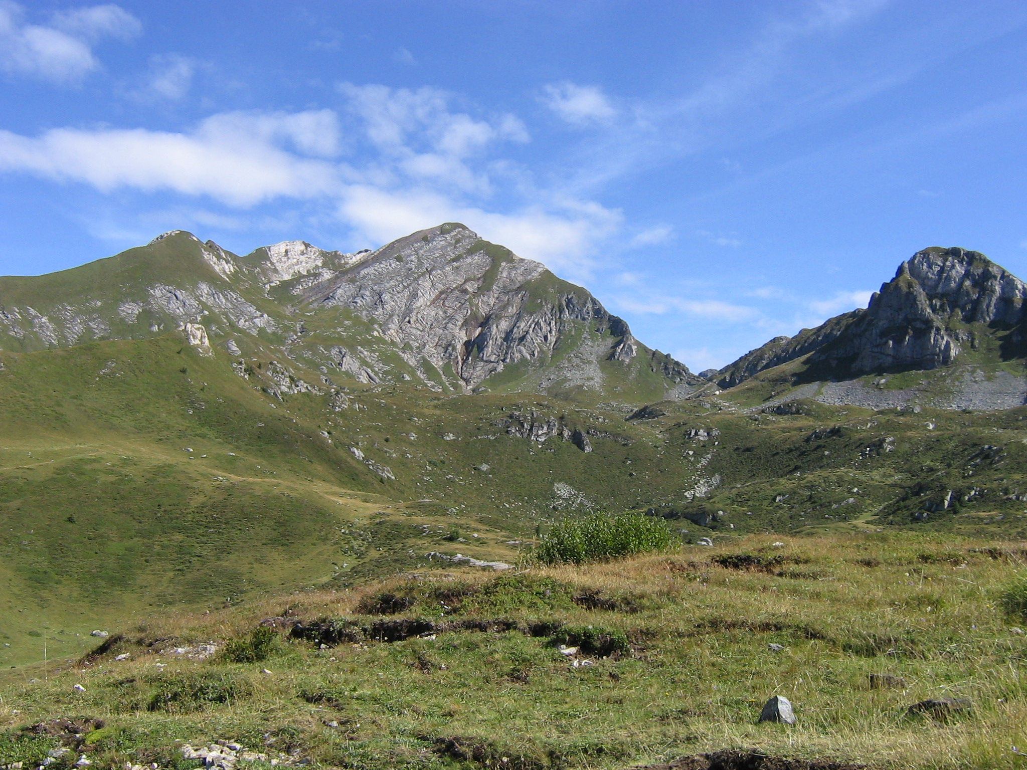 Mount Frerone (2673 mt) in Adamello range